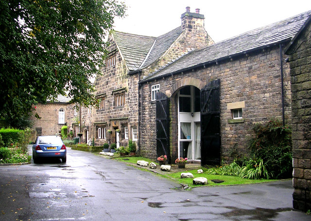 Old Hall, Church Lane, Esholt, Bradford, West Yorkshire, England.